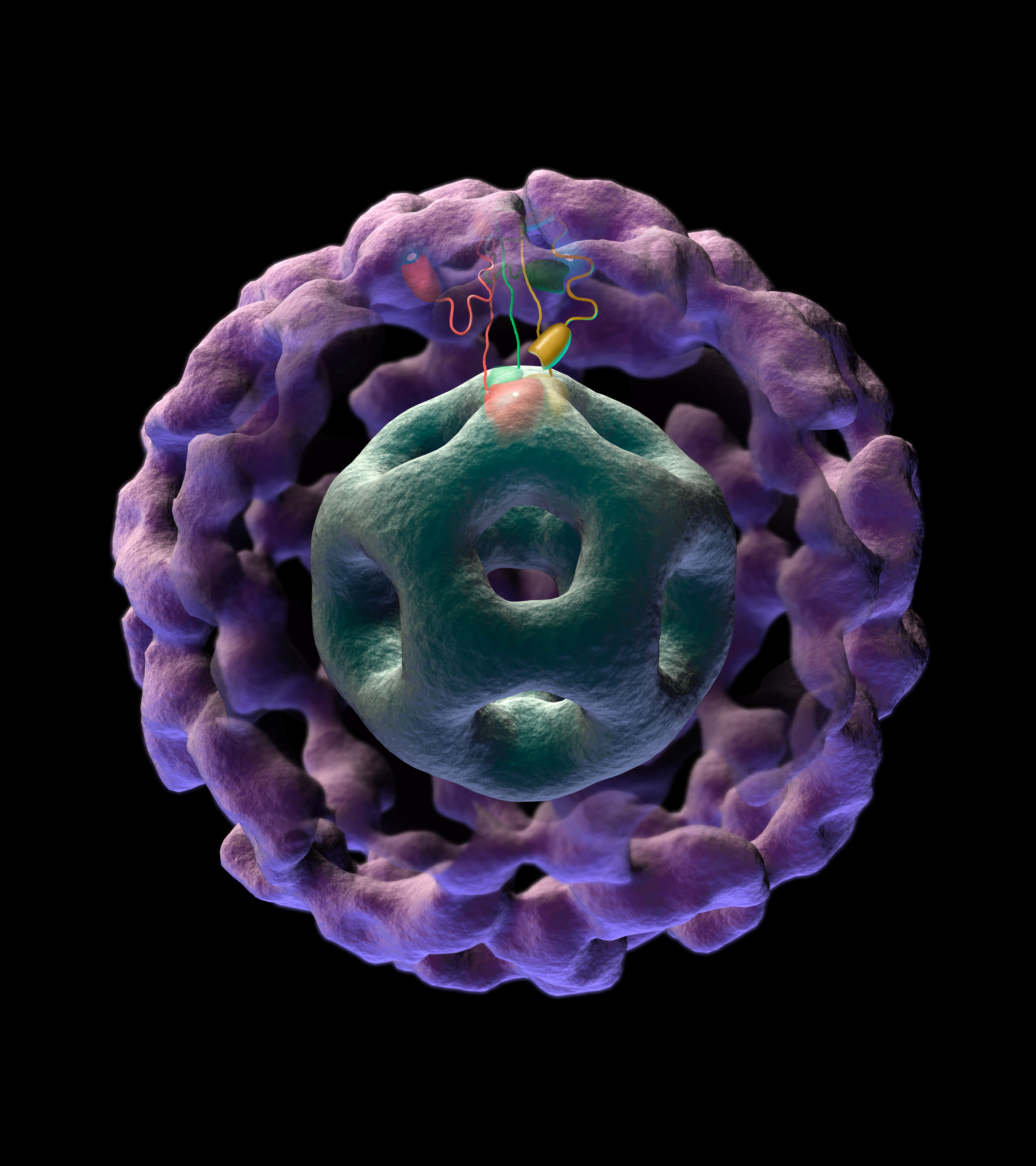 Title:3D structure of pyruvate dehydrogenase complex Description: 3D structure of the 11 megadalton pyruvate dehydrogenase complex which is responsible for synthesis of the key metabolite acetyl CoA. Categories: Research in NIH Labs and Clinics Type: Color, Diagram Source: National Cancer Institute (NCI) Creator: Sriram Subramaniam Date Created: Unknown Date Added: 5/24/2012 Reuse Restrictions: None - This image is in the public domain and can be freely reused. Please credit the source and/or author listed above.